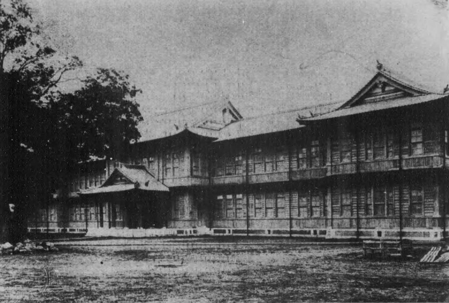 Tokyo school of fine arts (1913)